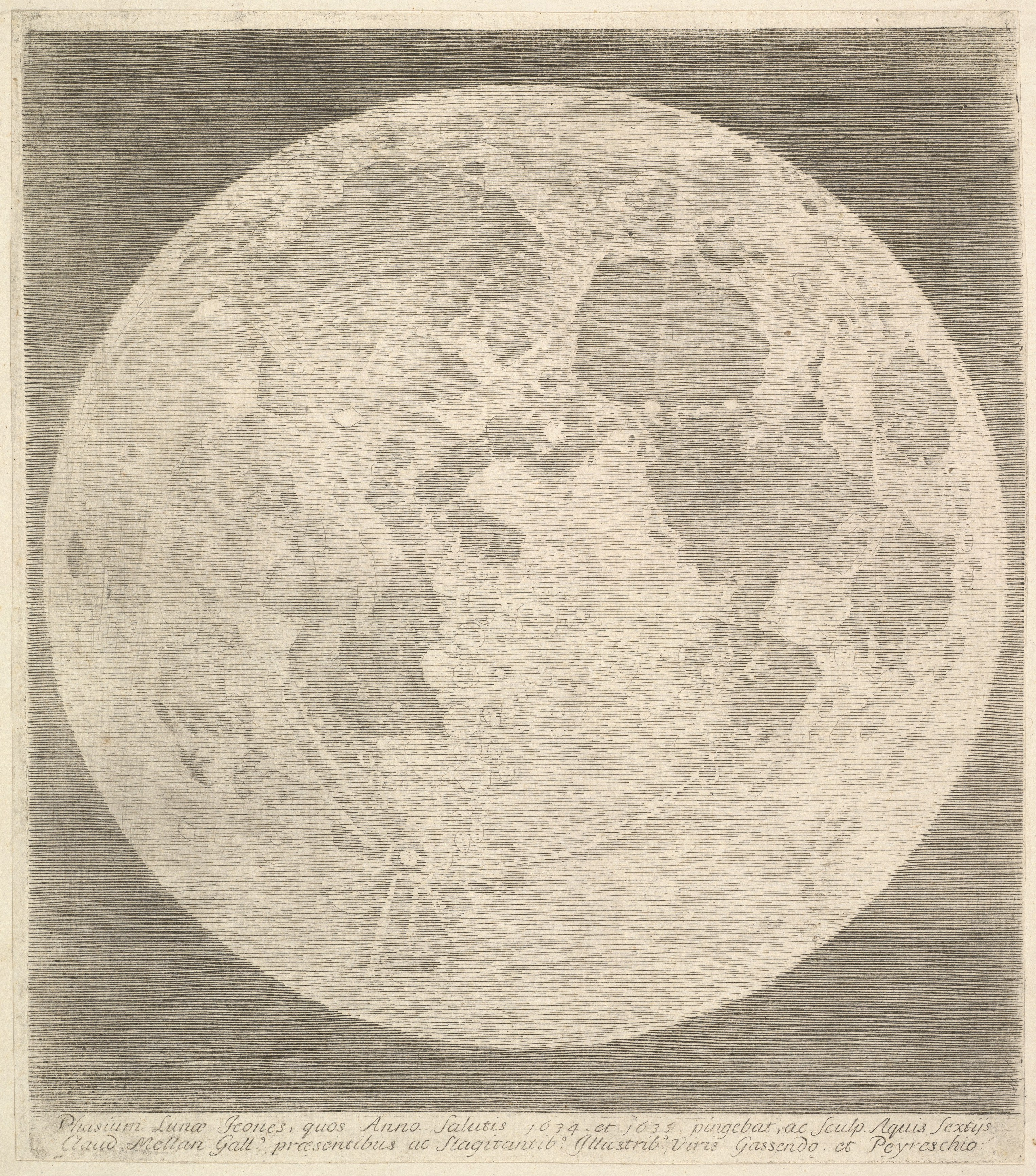 Print; Prints